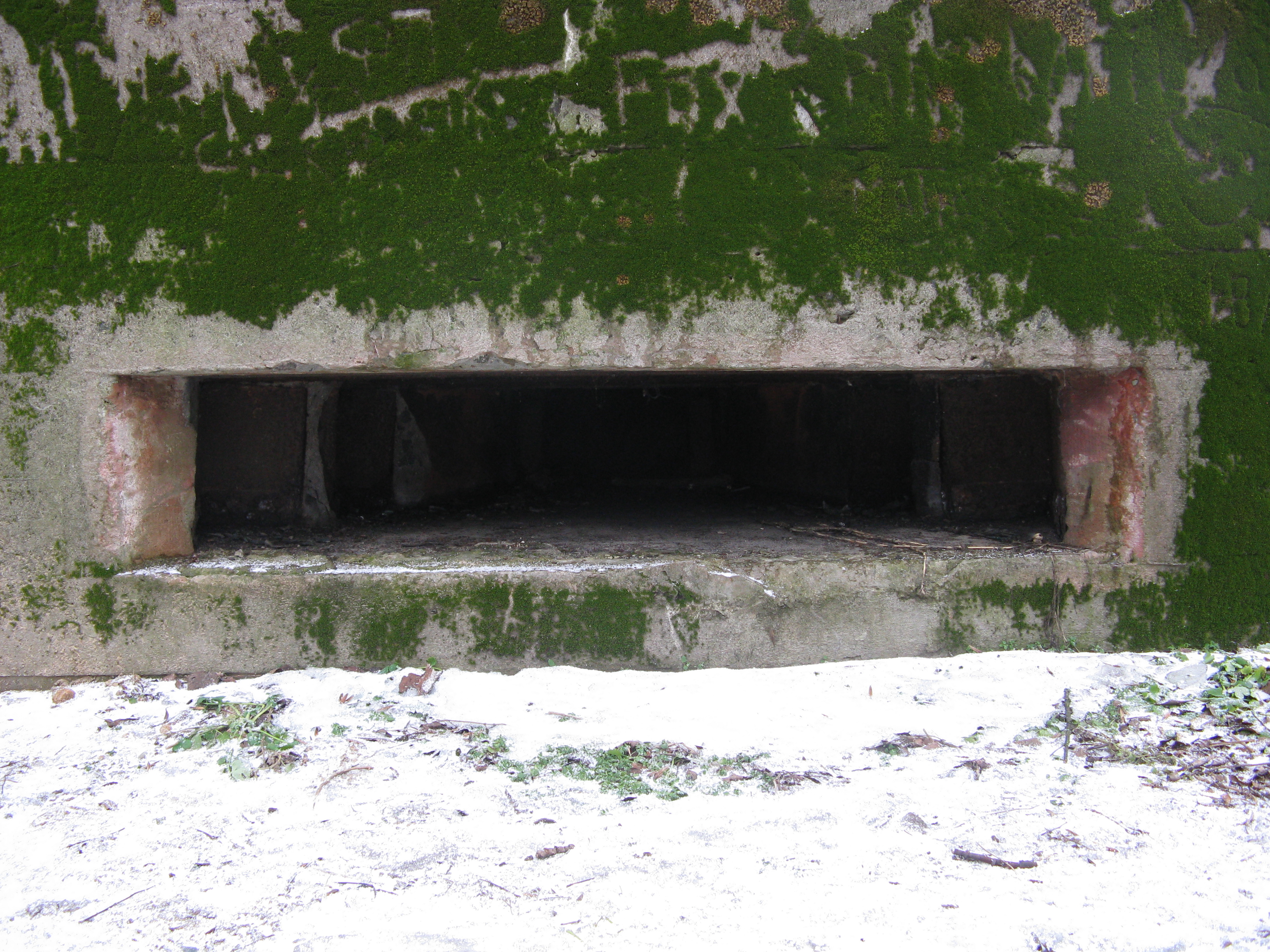 The Embrasure Pillbox No. 481